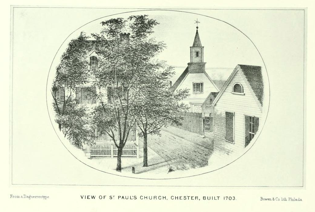 Sketch of St. Paul's Church in Chester from John Jordan's History of Delaware County, and it's people, 1914